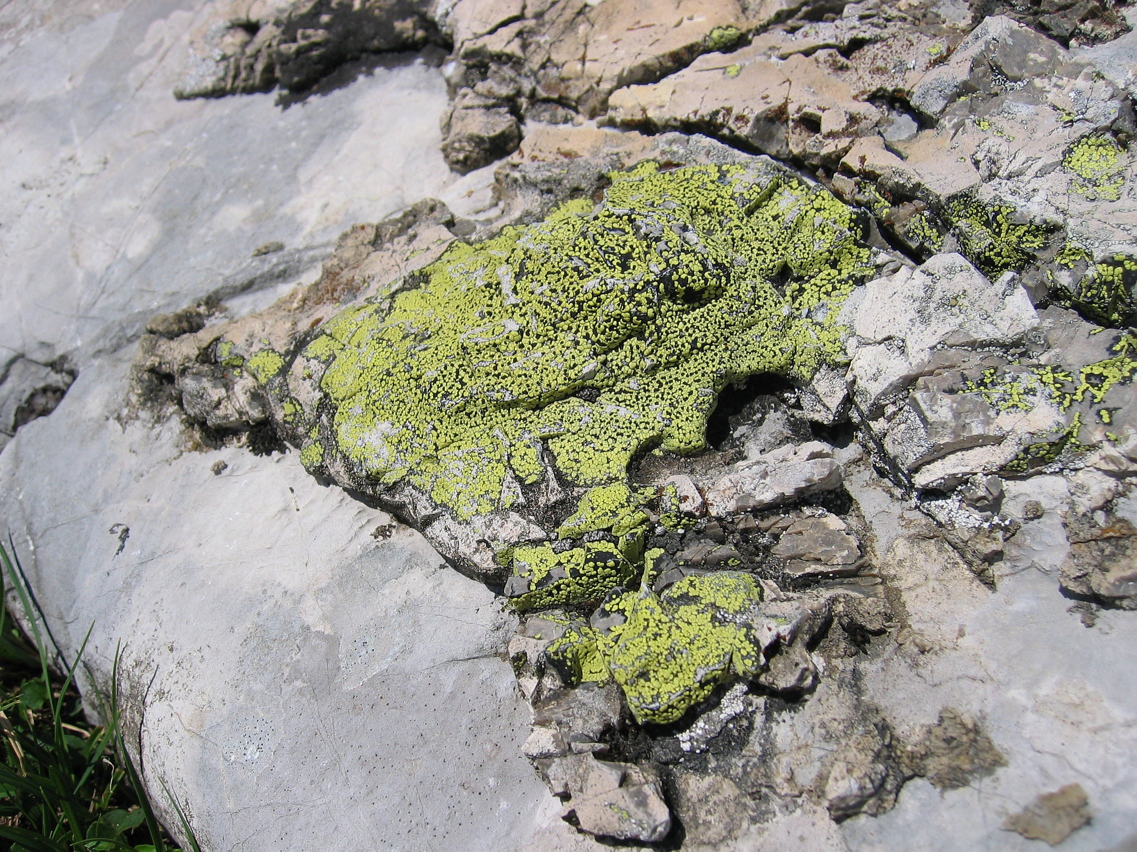 Chert-bearing Oberalm Limestone (Oberalm-Schichten, Oberalmer Kalk; uppermost Jurassic/lowermost Cretaceous), with the chert being overgrown by the extant lichen Rhizocarpon geographicum, Wildgößl, Styria, Austria